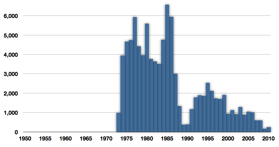 Global fisheries capture of the Greenland cod, Gadus ogac, from 1950 to 2010 as reported by the FAO. Data source FAO fisheries